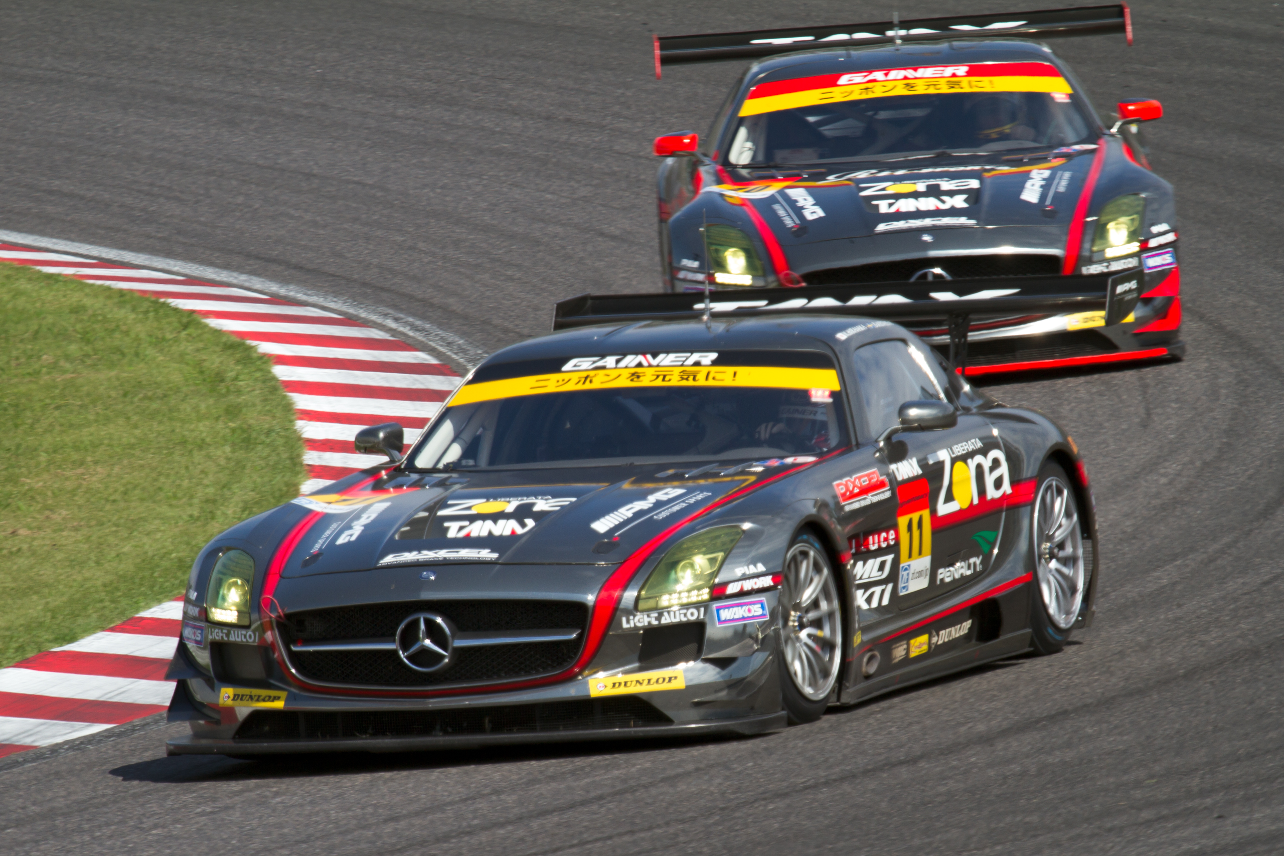 Super GT 2014 Rd.6 Suzuka 1000km: Katsuyuki Hiranaka (#11, Gainer) and Masayuki Ueda (#10, Gainer)